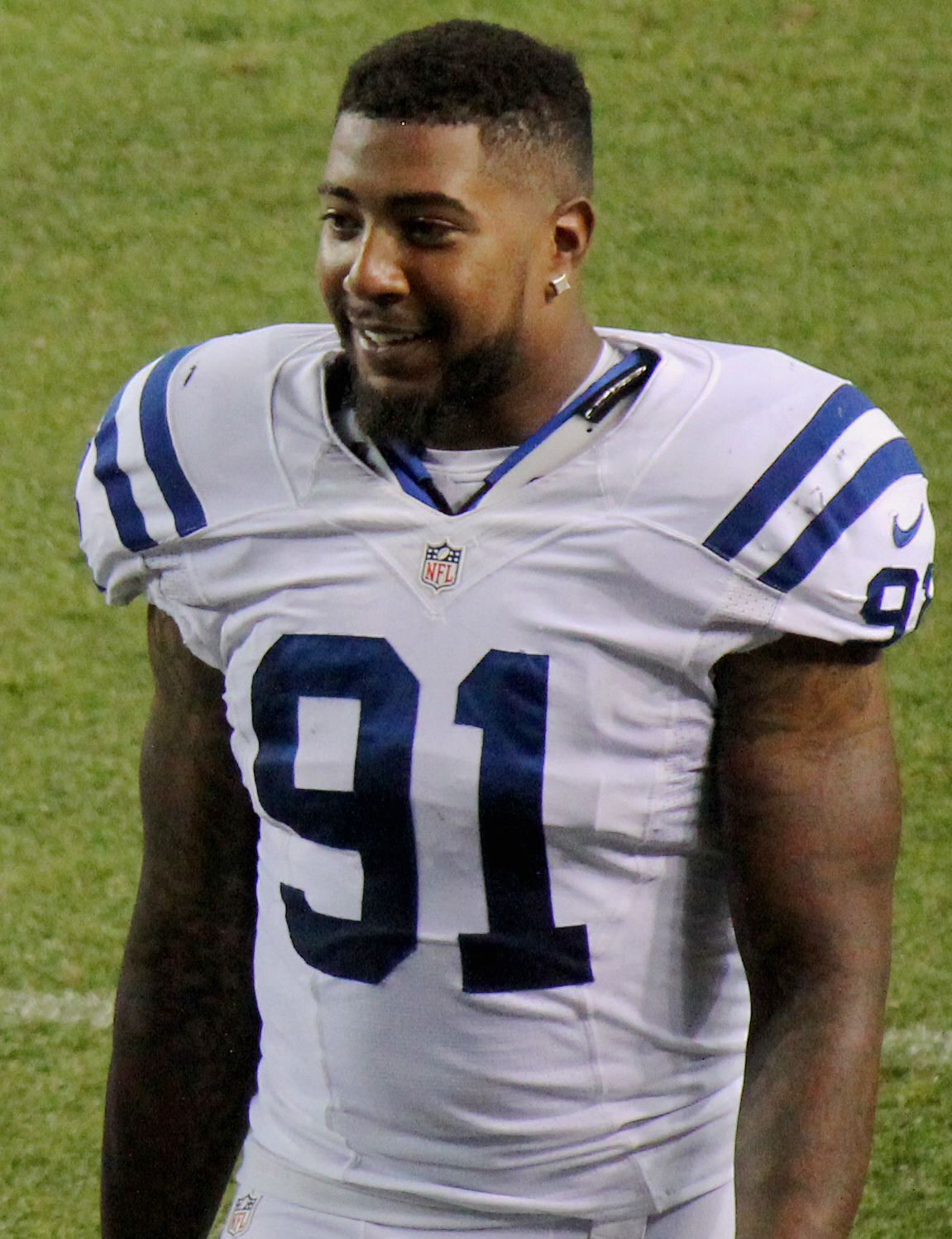 Jonathan Newsome, a player on the National Football League.